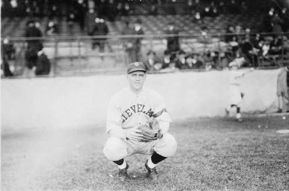 Stephen Francis O'Neill (1891 – 1962), an American catcher, manager, coach and scout in Major League Baseball